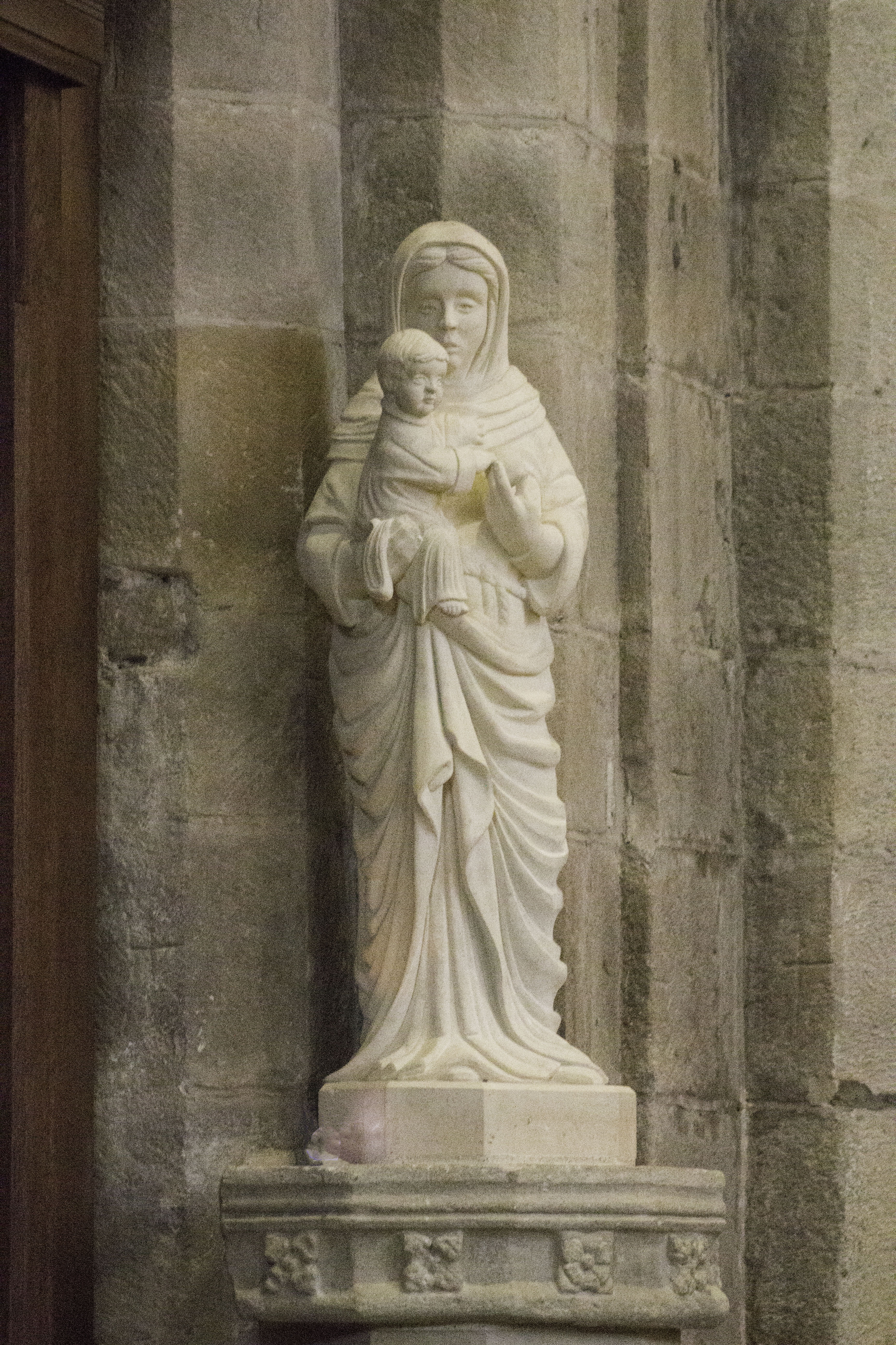 statue of St Mary within the Priory Church of St Mary & St Cuthbert, Bolton Abbey